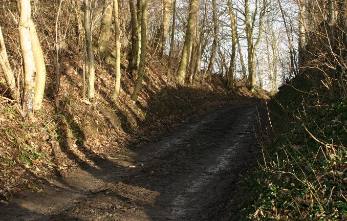 Sunken road in East Jutland.